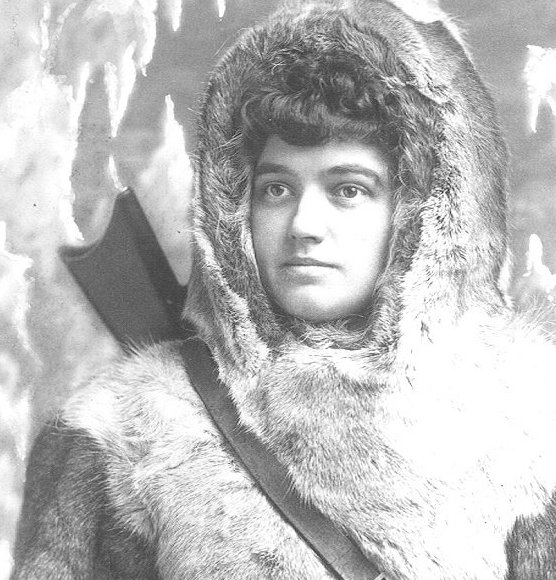 Studio portrait of Josephine Peary, wife of explorer Robert Peary. Taken by E.S. Dunshee, photographer, 1330 Chestnut Street, Philadelphia. Published as a postcard in 1892 and later.